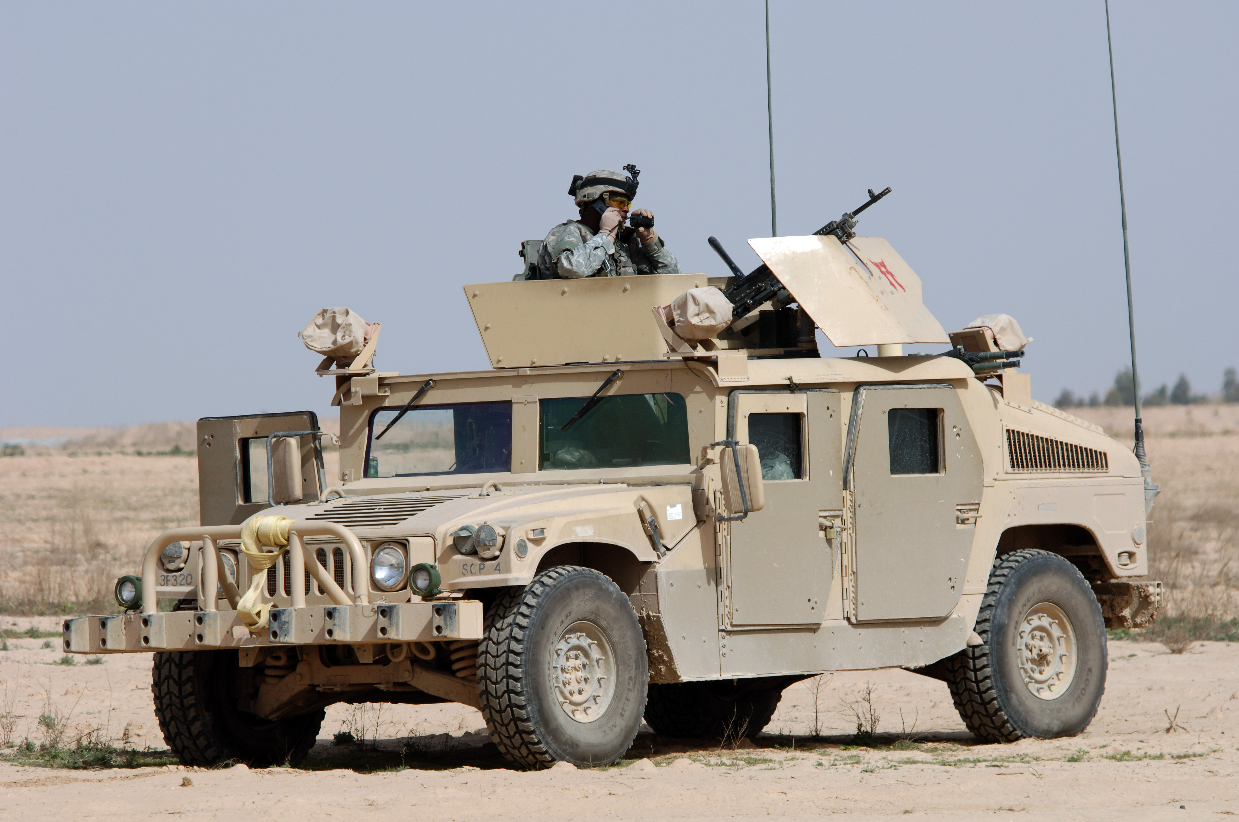 Salah Ad Din Province, Iraq (March 22, 2006) – U.S. Army soldiers assigned to the Bravo Battery 3rd Battalion 320th Field Artillery Regiment along with Iraq Army soldiers from the 1st Battalion 1st Brigade 4th Division perform a routine patrol. U.S. Navy photo By Photographers Mate 3rd Class Shawn Hussong (RELEASED)